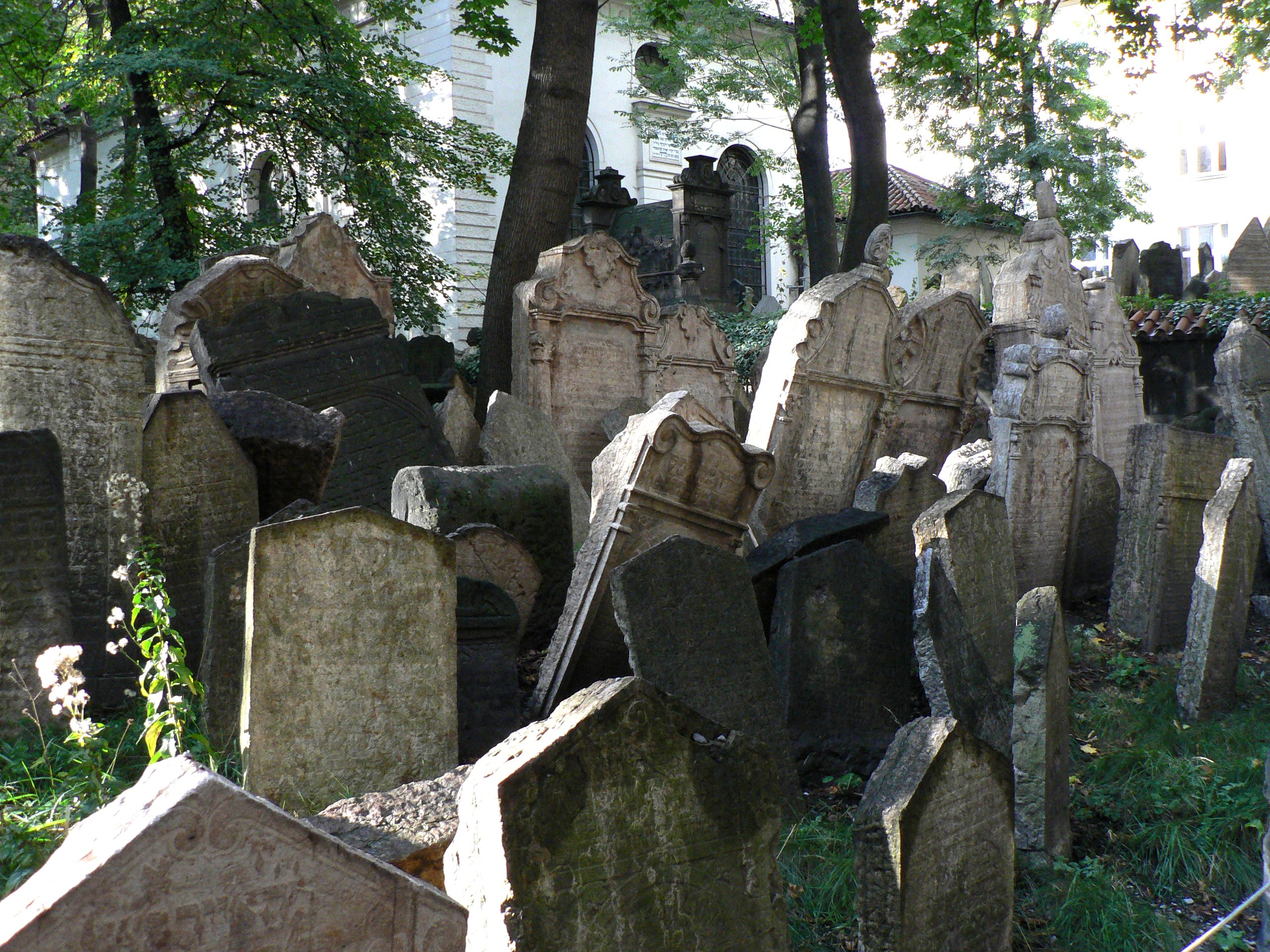 The Ancient Jewish cemetary in Praha Author: MathKnight